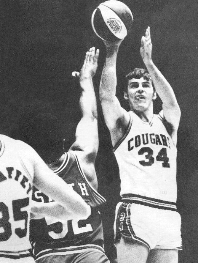 Professional basketball player Doug Moe